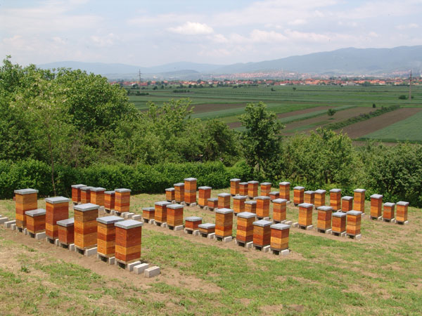 Bee Farm